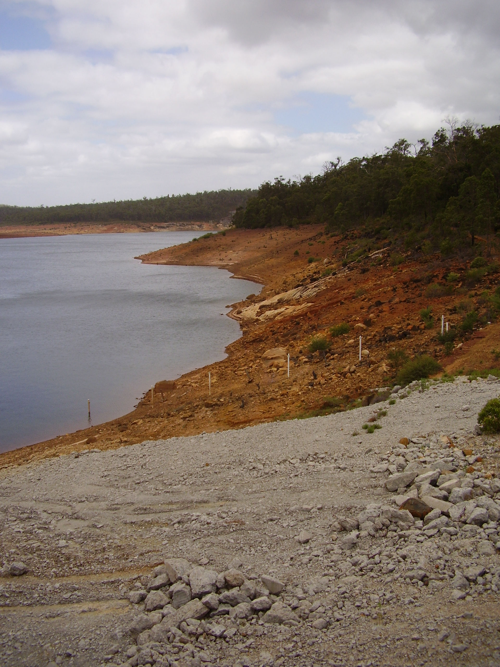 The water level at Canning Dam in Perth, Western Australia when the dam was down to 34.4% of its total capacity.